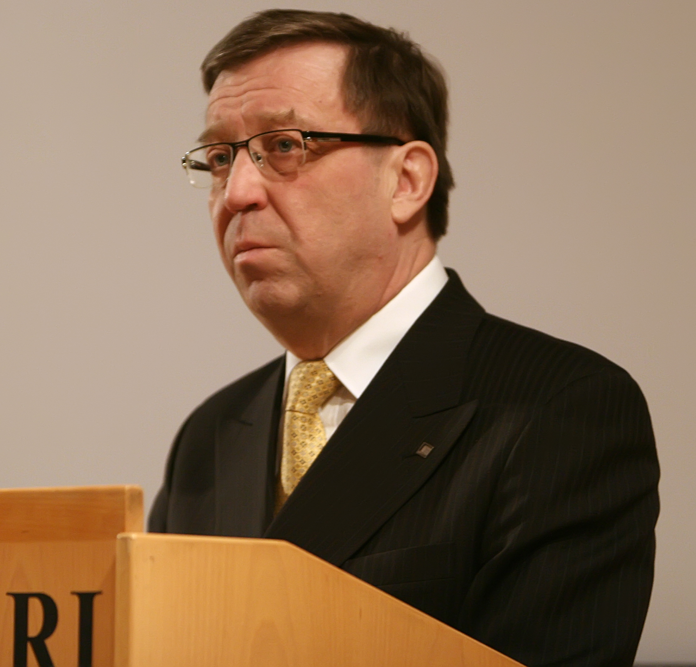 Former goverment minister and Member of Parliament of Finland for the Social Democratic Party Kari Rajamäki